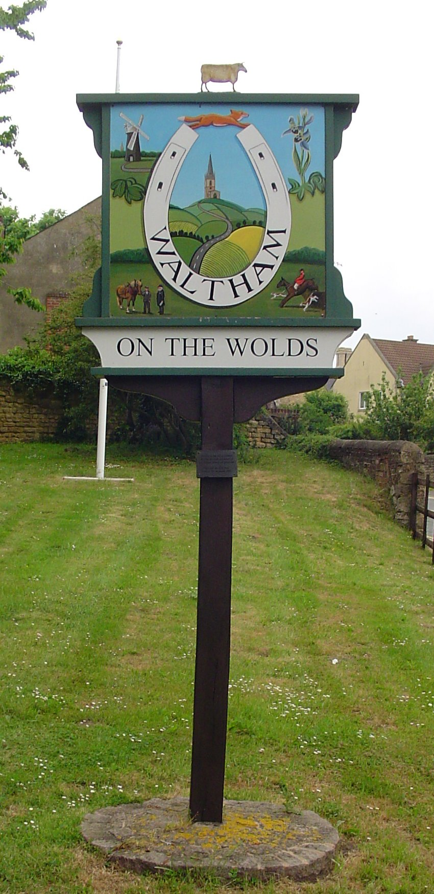 Signpost in Waltham on the Wolds